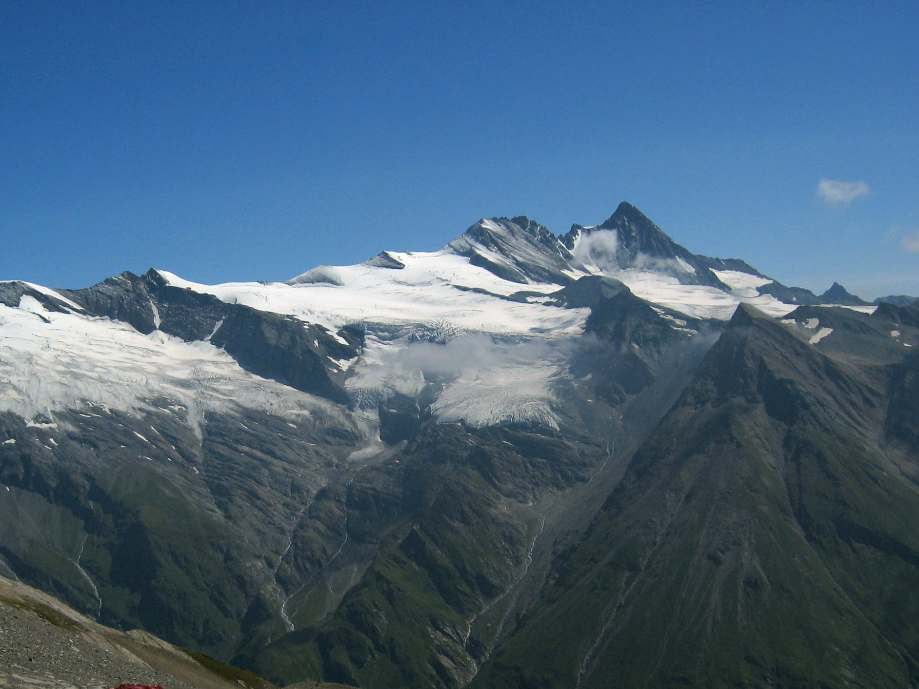 Großglockner seen from the southwest. The Großglockner (3.797 m), the highest peak of Austria, is the highest peak in the image, pyramid-shaped, right of the center. Left of it, the more elongated and mostly snow-free mountain is the Glocknerwand and Hoffmannspitze (3.722 m). The Romariswandkopf (3.511 m) is the peak of the rock wall (Romariswand) in the left part of the image. The pyramid-shaped peak in front of the Großglockner is the Zollspitze (3.024 m). The glacier in front of the Großglockner is the Teischnitzkees, that behind and right of the Romariswand is the Fruschnitzkees. The image was taken from approx. 2.800 m above sea level, near the saddle north of the Gradötzkogel, at the trekking route Silesia Höhenweg. The distance from the peak of the Großglockner was 8 km.